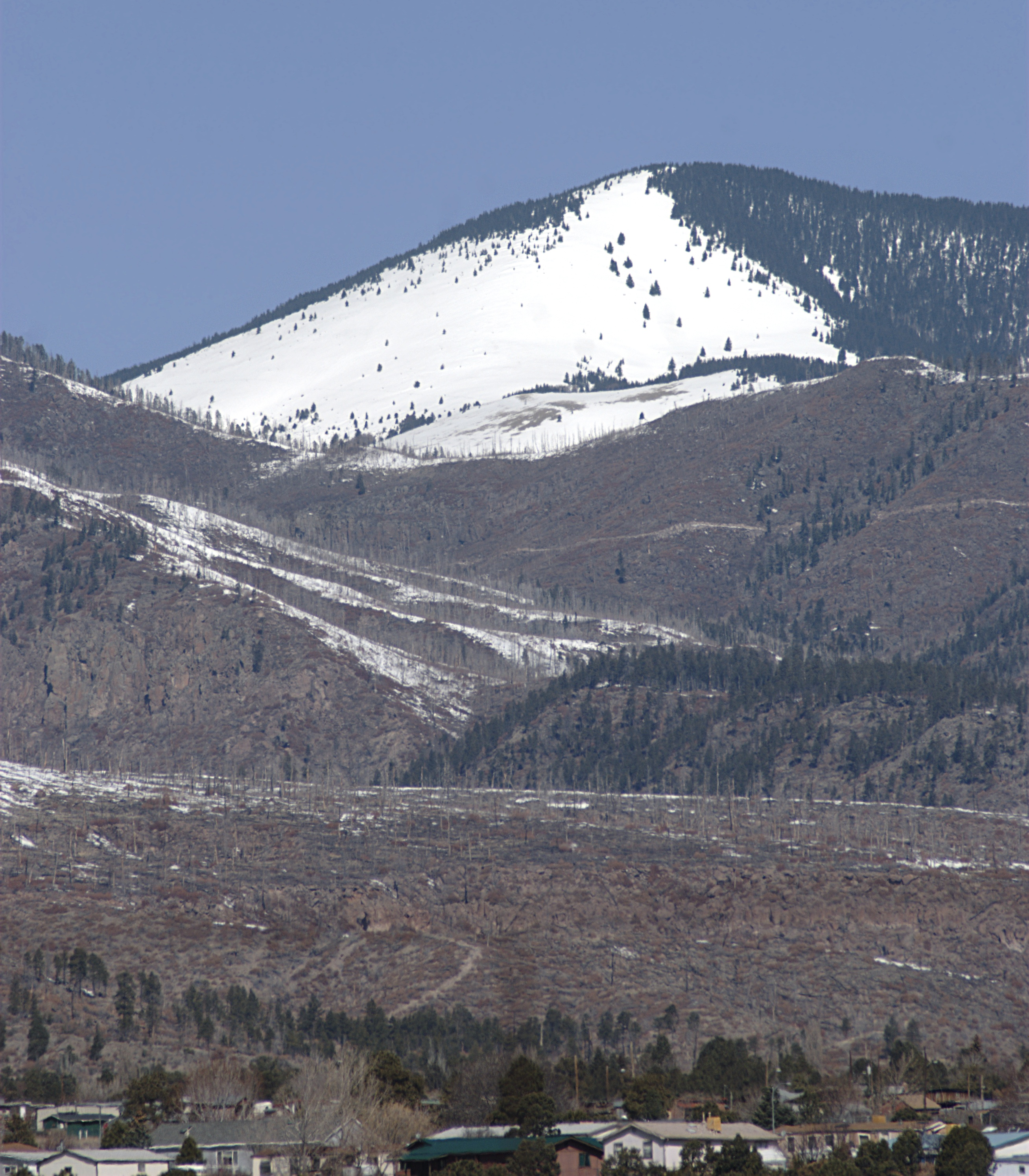 Chicoma, the highest peak in the Jemez Mountains, New Mexico, in snow. Some houses in Los Alamos, New Mexico, are visible. From East Road (New Mexico 502), Los Alamos, New Mexico.